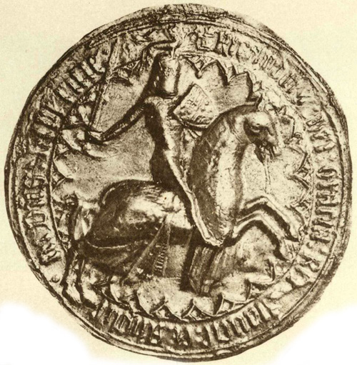 Richard of Cornwall